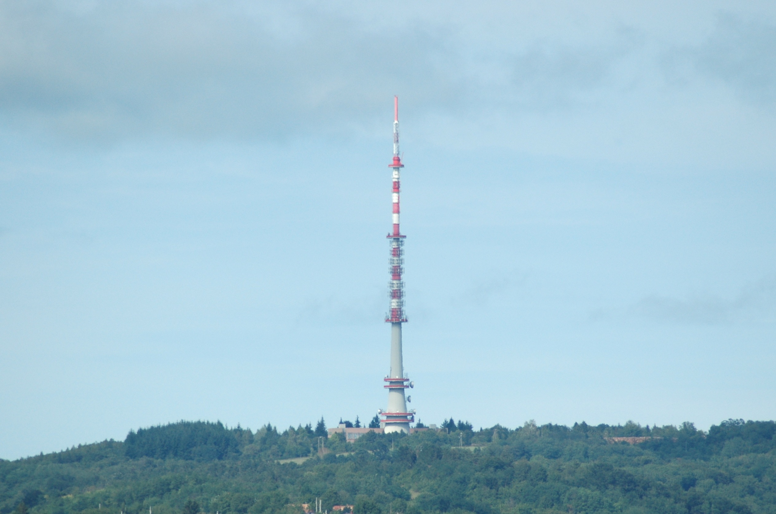 The 190 m high Újudvar TV Tower (near Nagykanizsa, Zala County, Hungary)